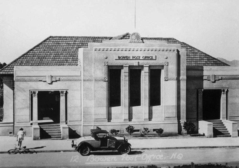 Post Office, Bowen, ca. 1939